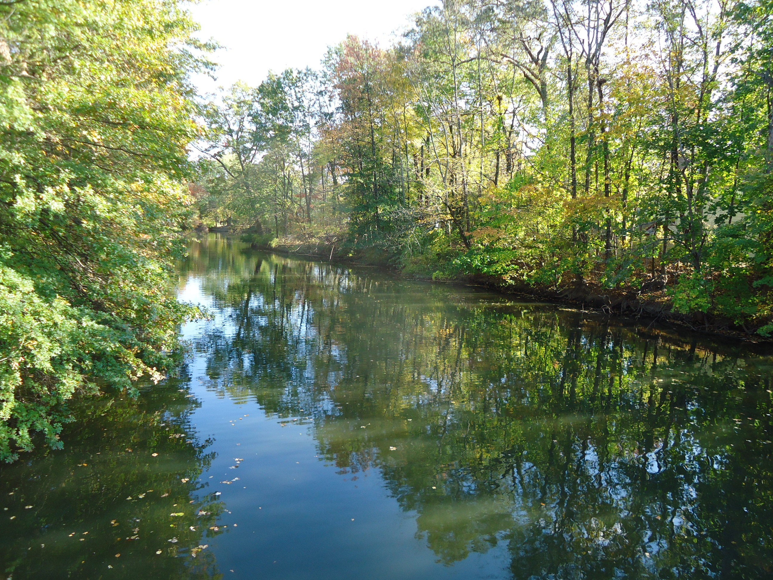 Rahway River in Union County, New Jersey, in early autumn.